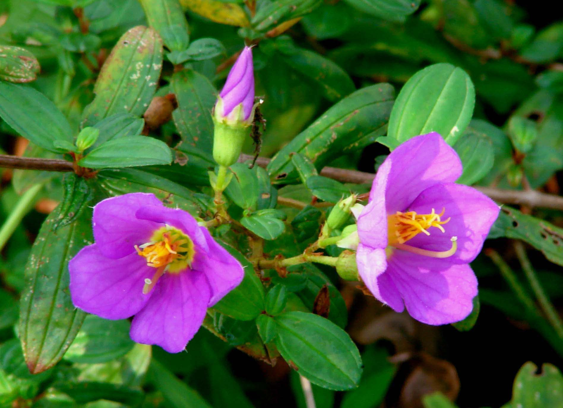 Osbeckia_octandra